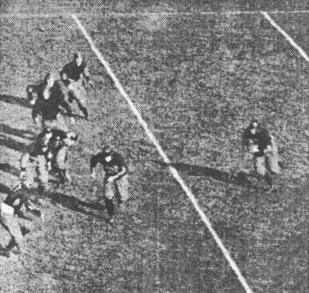 Harvard fullback Eddie Mahan carries against Princeton in 1915